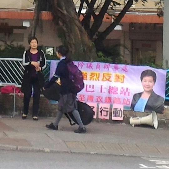 A local councilor launched a signature action at Cheung On Bus Terminus, Tsing Yi.